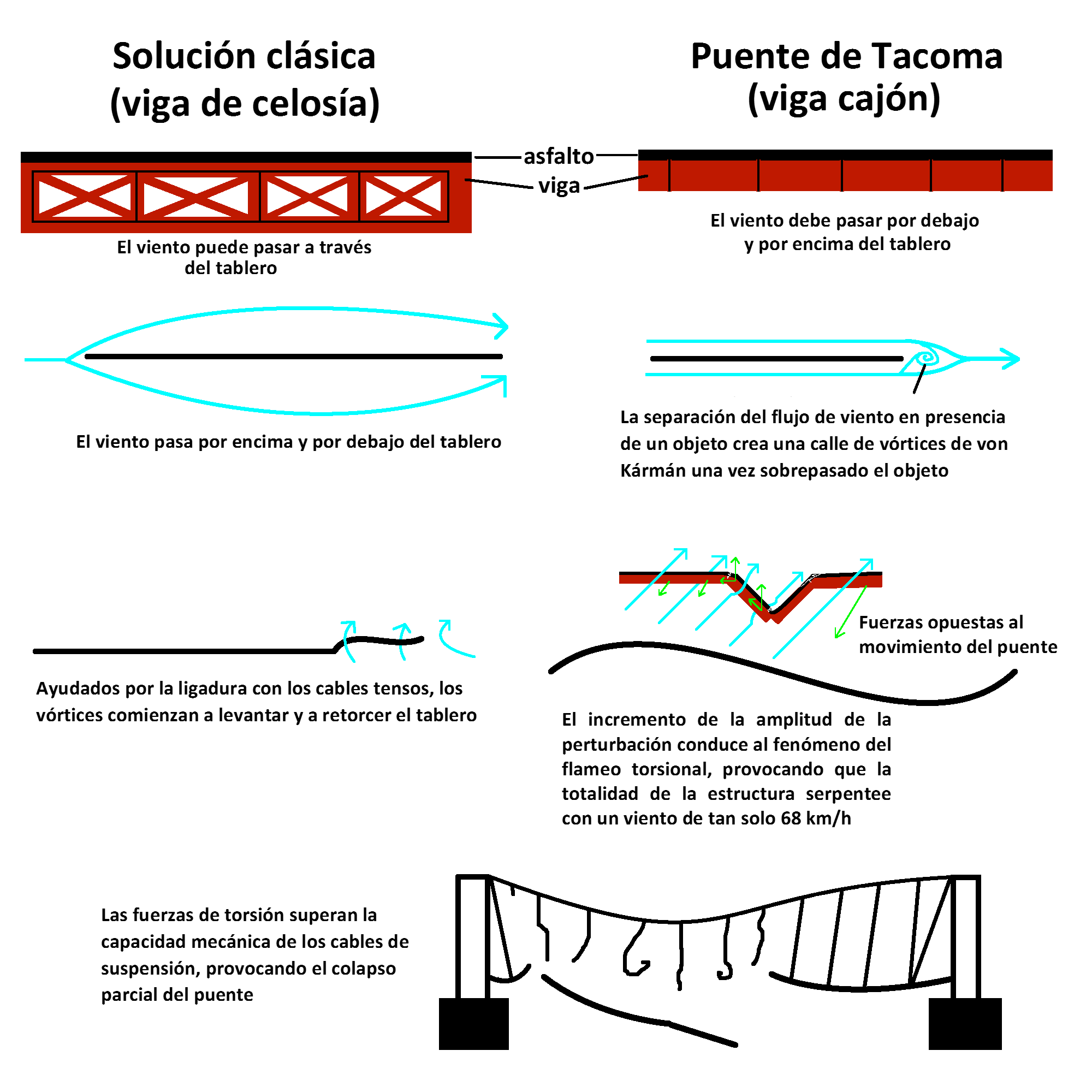 Simplistic representation of the Tacoma Narrows Bridge collapse.